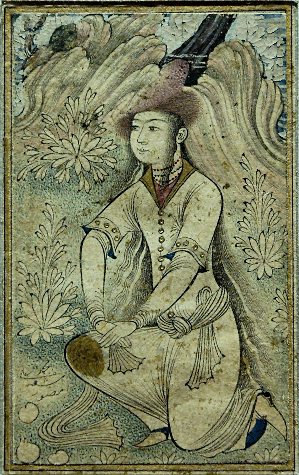 Maiden with a fur cap. Ink, coulour washes and gold on paper. Iran, Isfahan, middle 17th century.